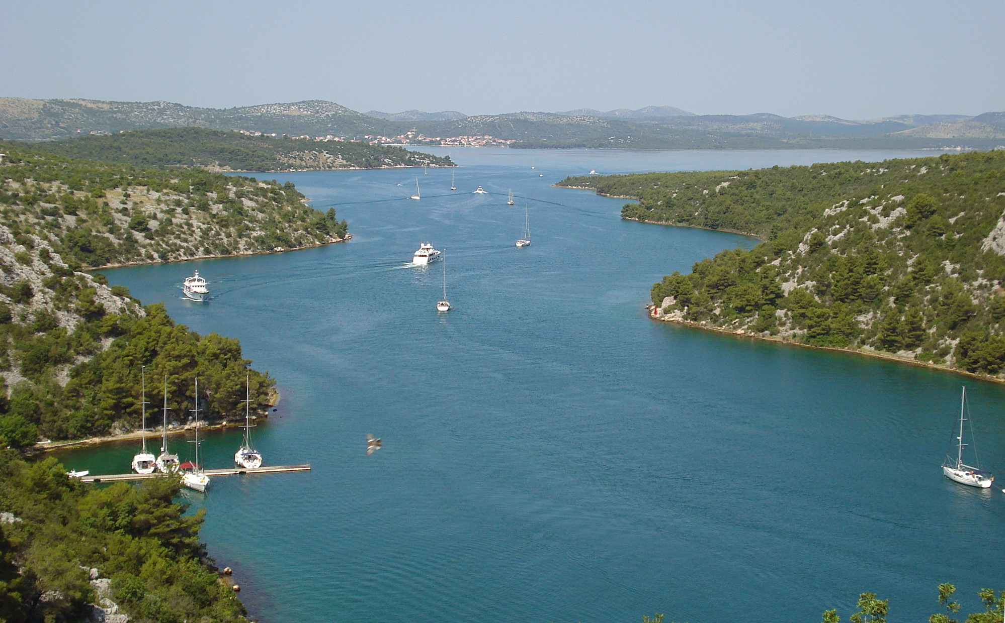 Krka River entering Prokljan Lake near Šibenik (Croatia)